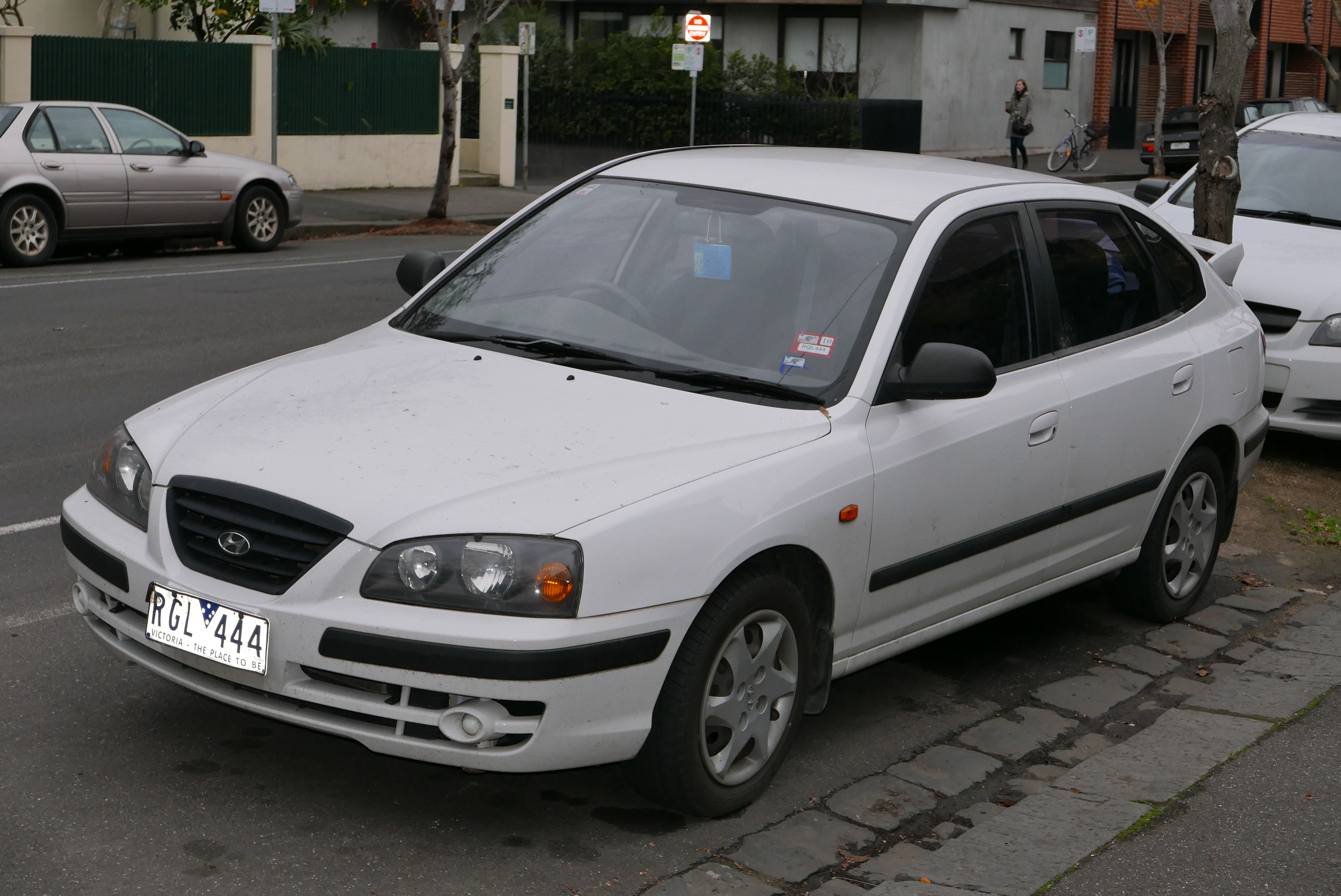 2004 Hyundai Elantra (XD MY04) hatchback. Photographed in Fitzroy, Victoria, Australia. Vehicle registration enquiry resultsJurisdictionVictoriaRegistrationRGL444Chassis codeKMHDM51DR4U128267Engine codeG4GC4931511Compliance date2004-04Year of manufacture2004